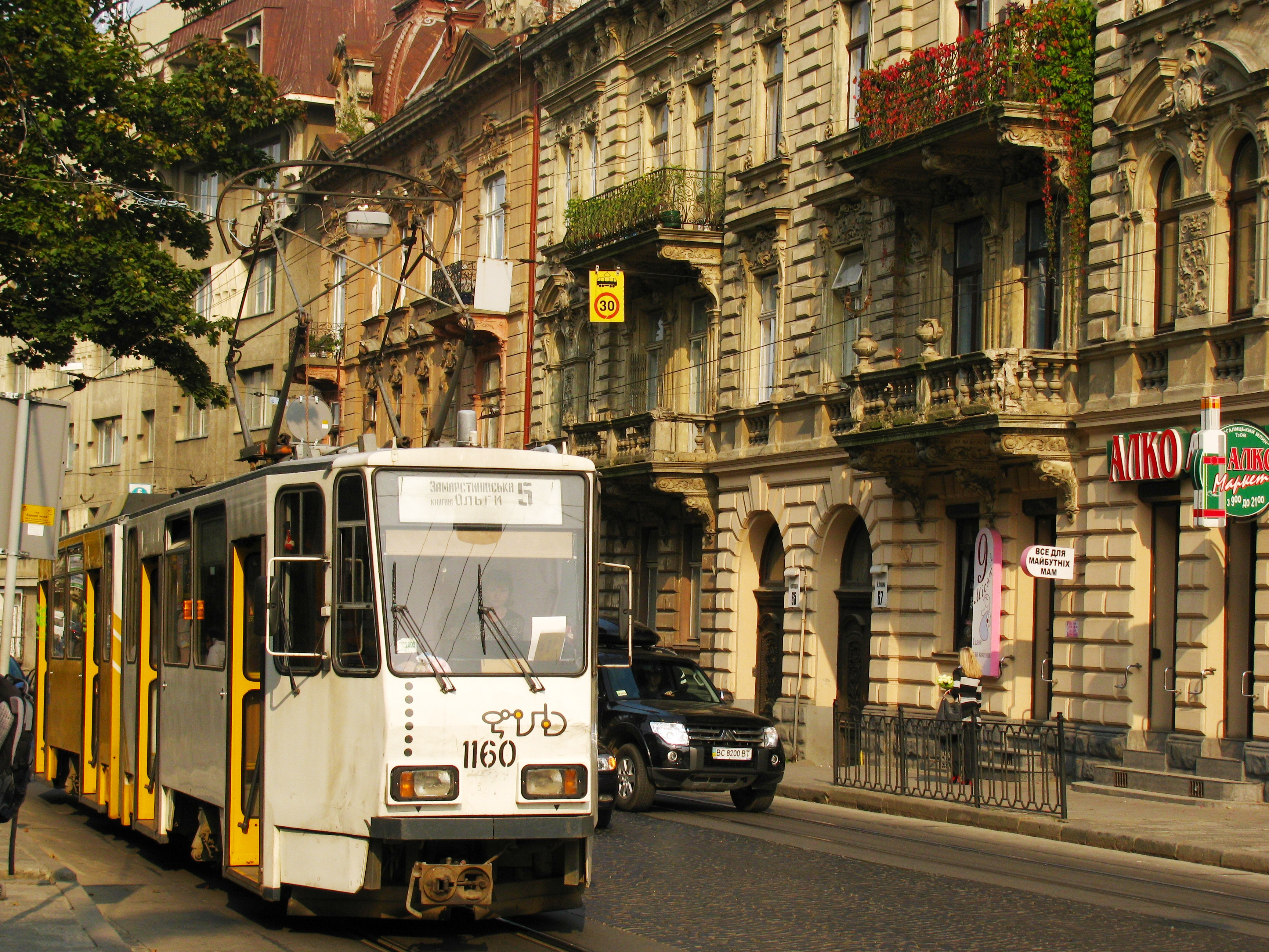 Tatra KT4D in Lviv, Ukraine